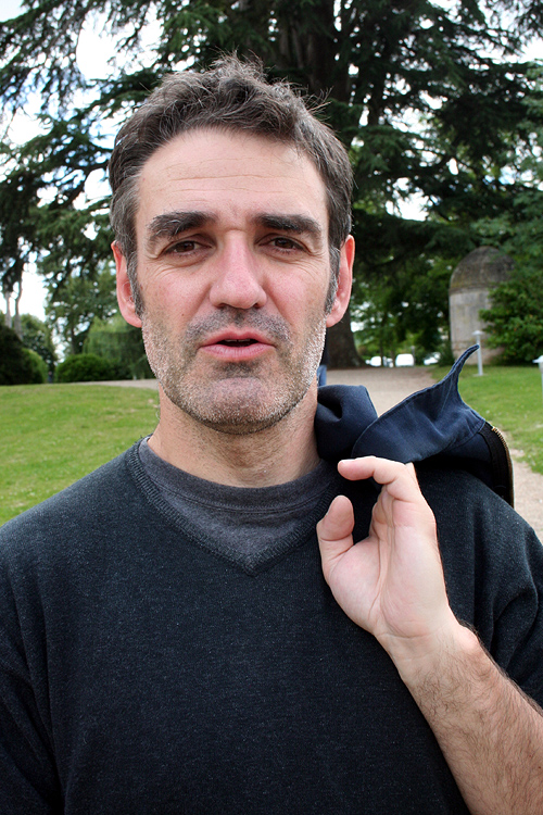 French comic book artist Philippe Dupuy, during the 2nd Summer University of Comics, in Angoulême (France), in 2007.